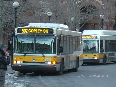 MBTA buses on routes 502 and 10 at Copley Square